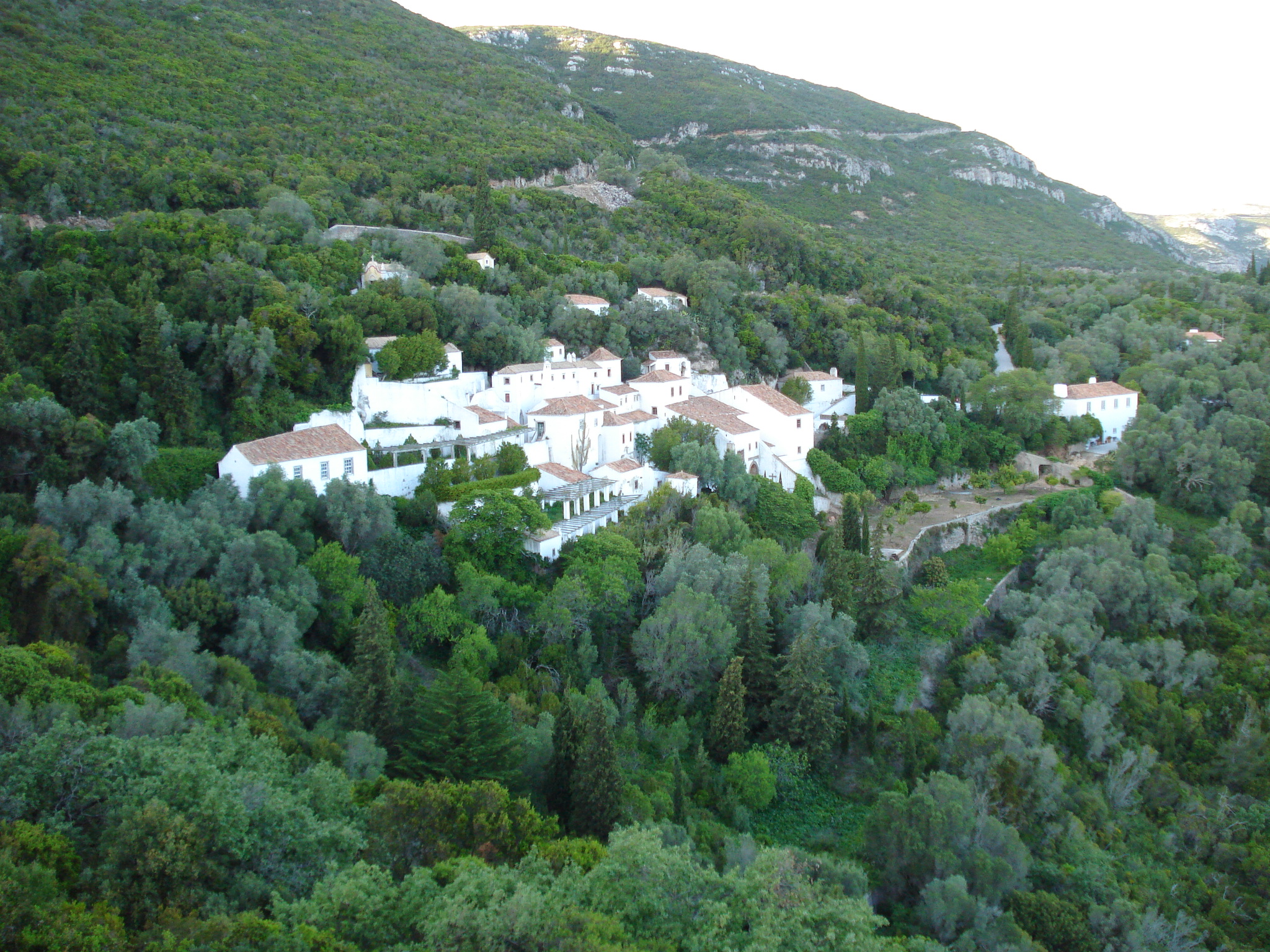 Arrábida Convent, Setúbal